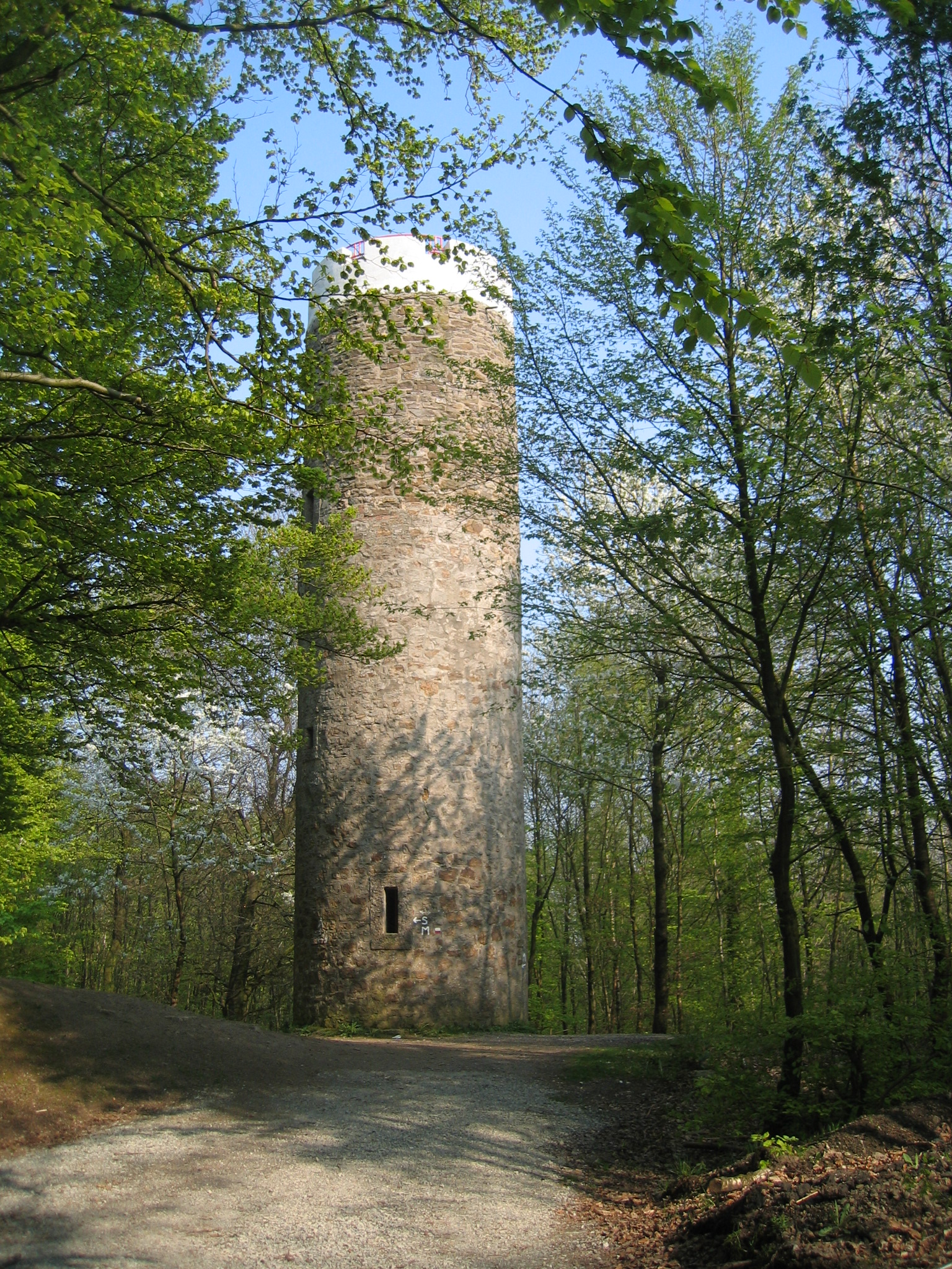 Observation tower in Rödinghausen, District of Herford, North Rhine-Westphalia, Germany.